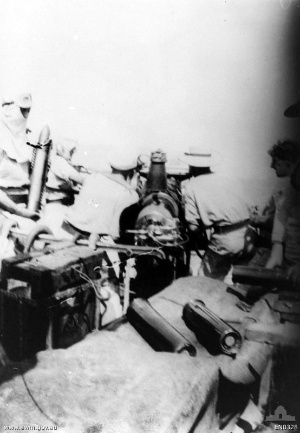 AWM caption : "Adriatic Sea. A 12 pounder gun in action on board the destroyer HMAS Huon. The two men on the left are wearing gas masks and flash protectors; the one on the far left is holding an artillery shell."